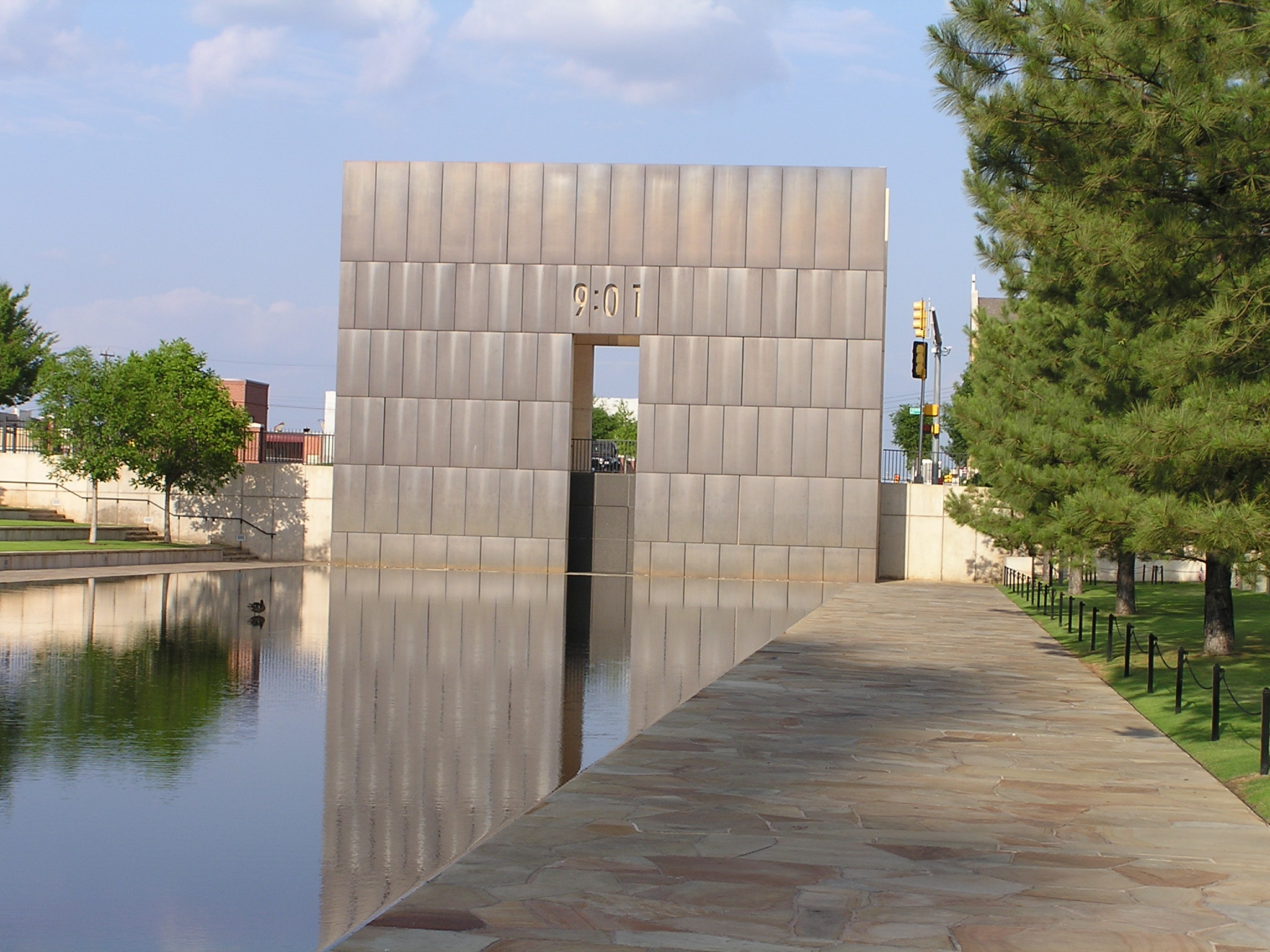 Oklahoma City National Memorial